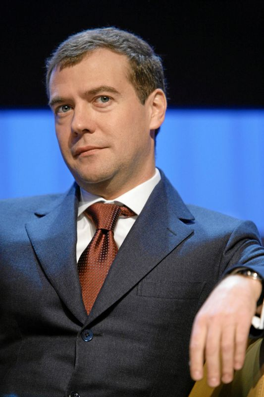 Dmitry Medvedev